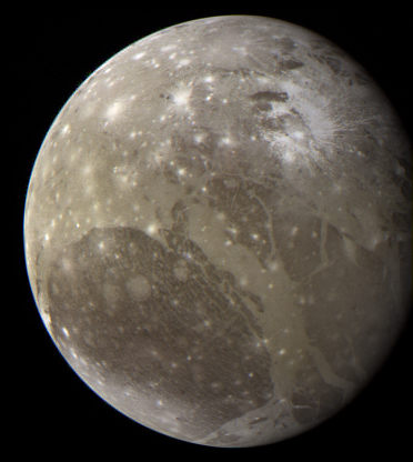 Assembled using infrared, green, and violet filtered images. NASA/JPL-Caltech